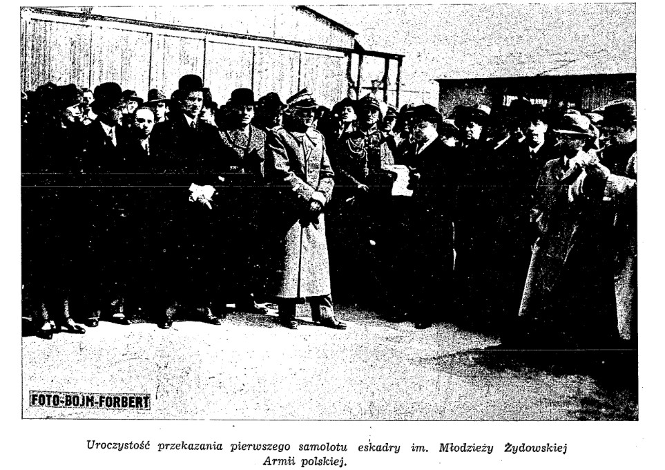 Ceremony of handing over an airplane RWD-8 bought by Polish Jews for Polish Air Force. Pole Mokotowskie airfield May 1938. General Leon Berbecki is visible (left).